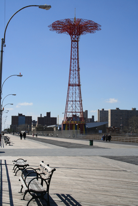 Parachute Jump Tower, Coney Island, New York as seen from the Riegelmann Boardwalk.